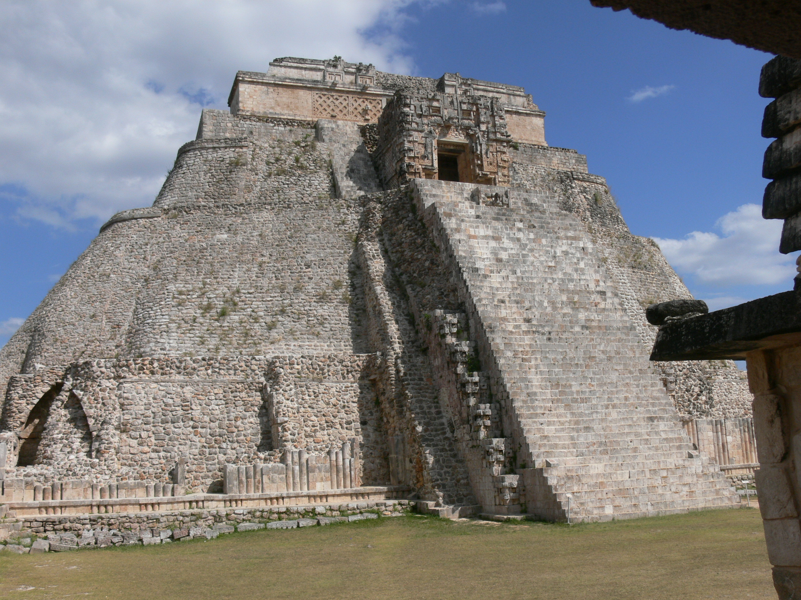 Uxmal ( Yucatan ). Pyramid of the magician: Western facade.